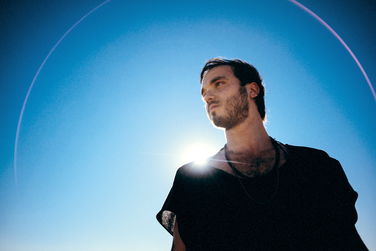 a picture of BOOTS during the filming of Motorcycle Jesus